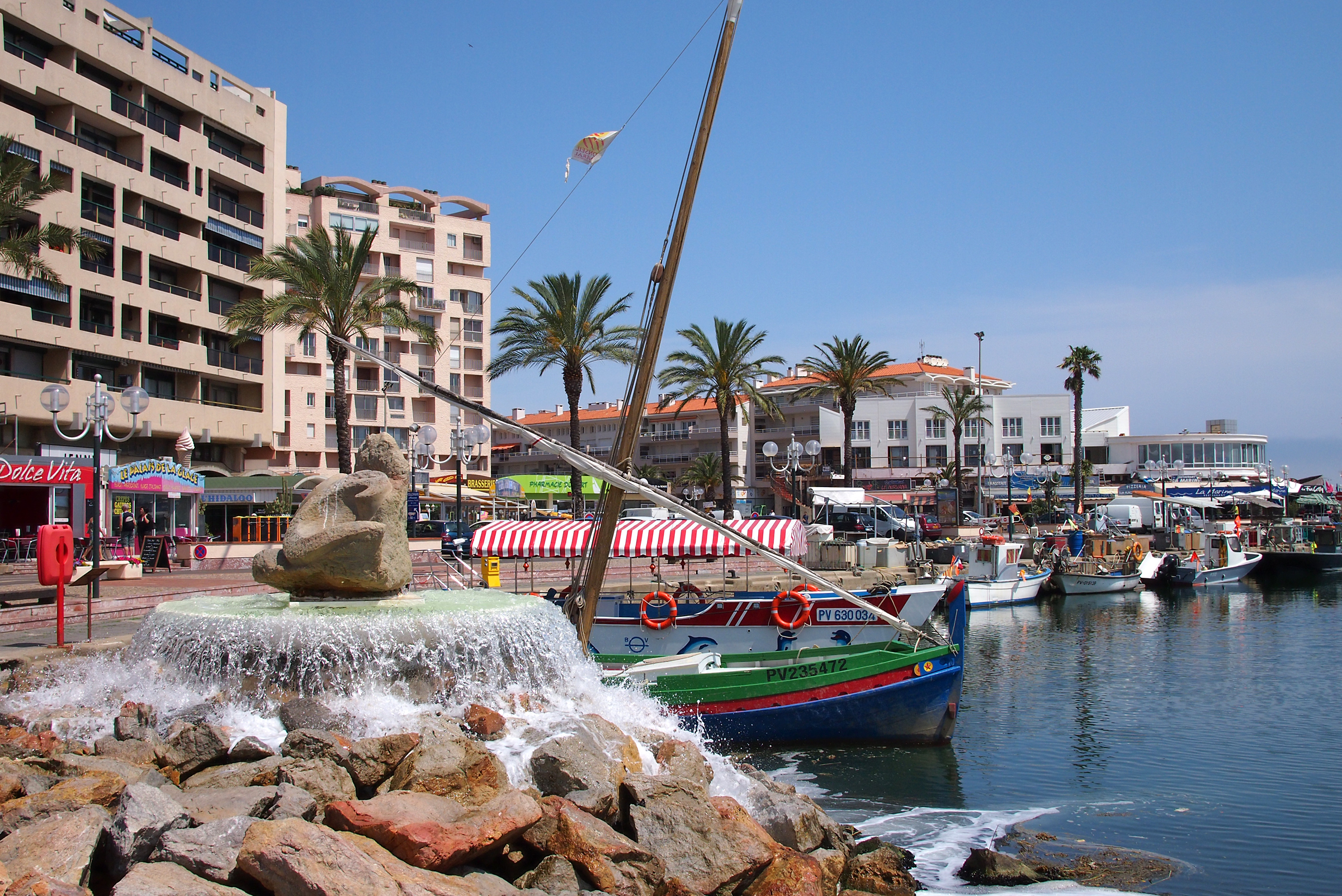 Saint-Cyprien (Pyrénées-Orientales)